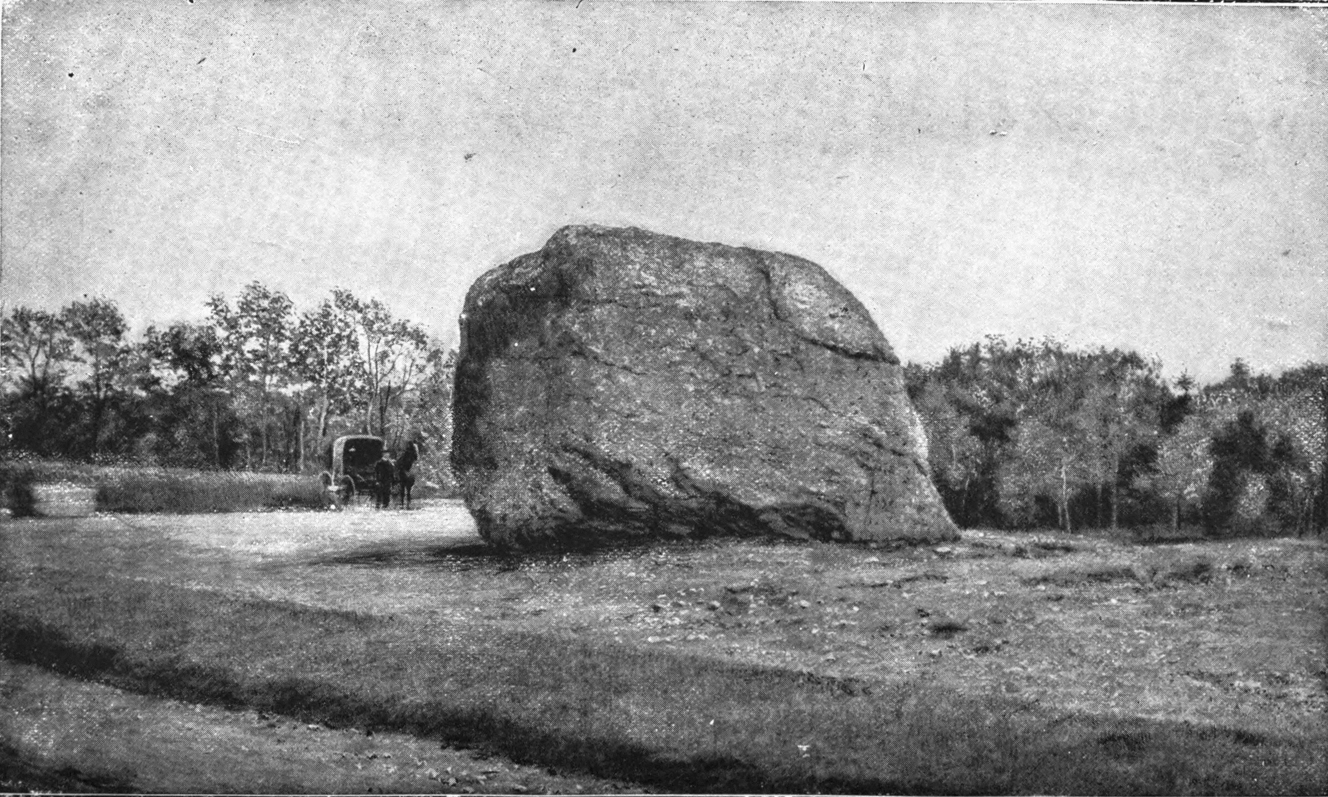 Scan from book Life of John Boyle O'Reilly